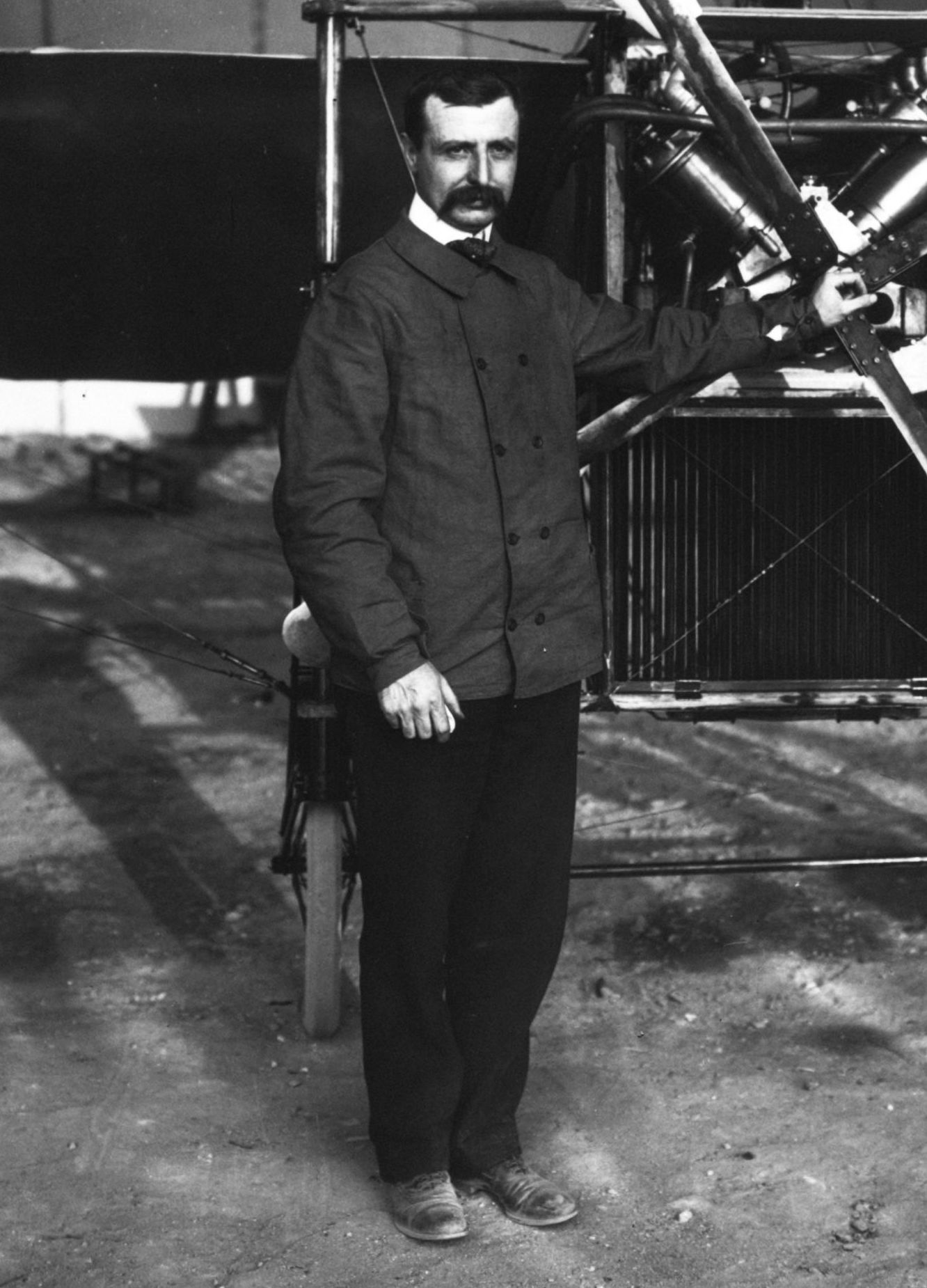 French aviator, inventor and engineer Louis Blériot (1872-1936)